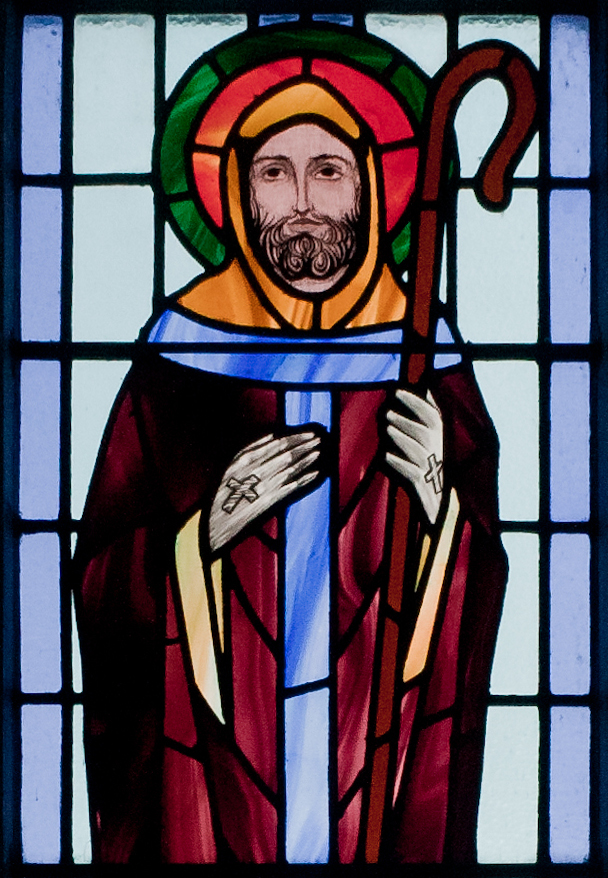 Detail of a stained glass window depicting St. Colman.